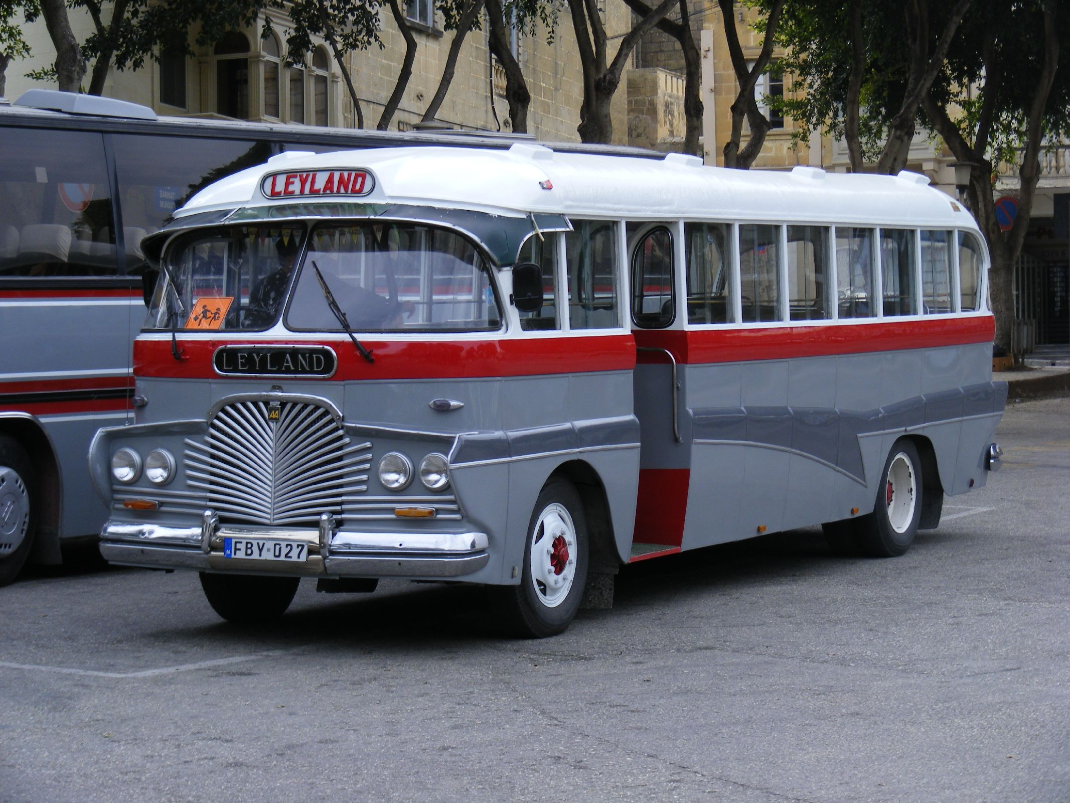 FBY027 Leyland, Victoria / Rabat Gozo. March 2010